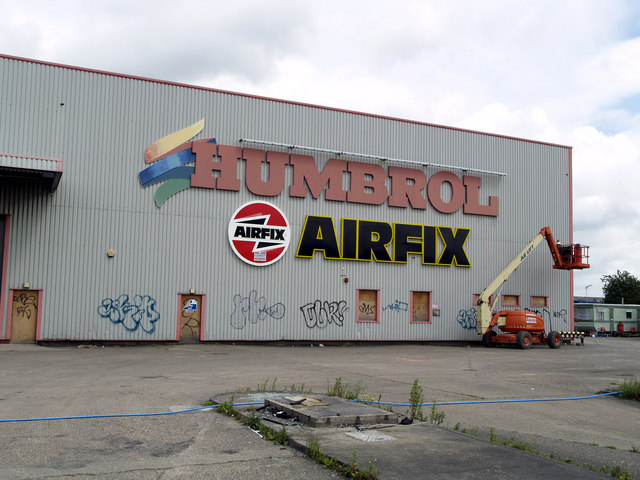 The former Humbrol Factory Once a busy factory on Hedon Road in Hull, there is barely more than this part of the original building left standing as demolition continues apace.